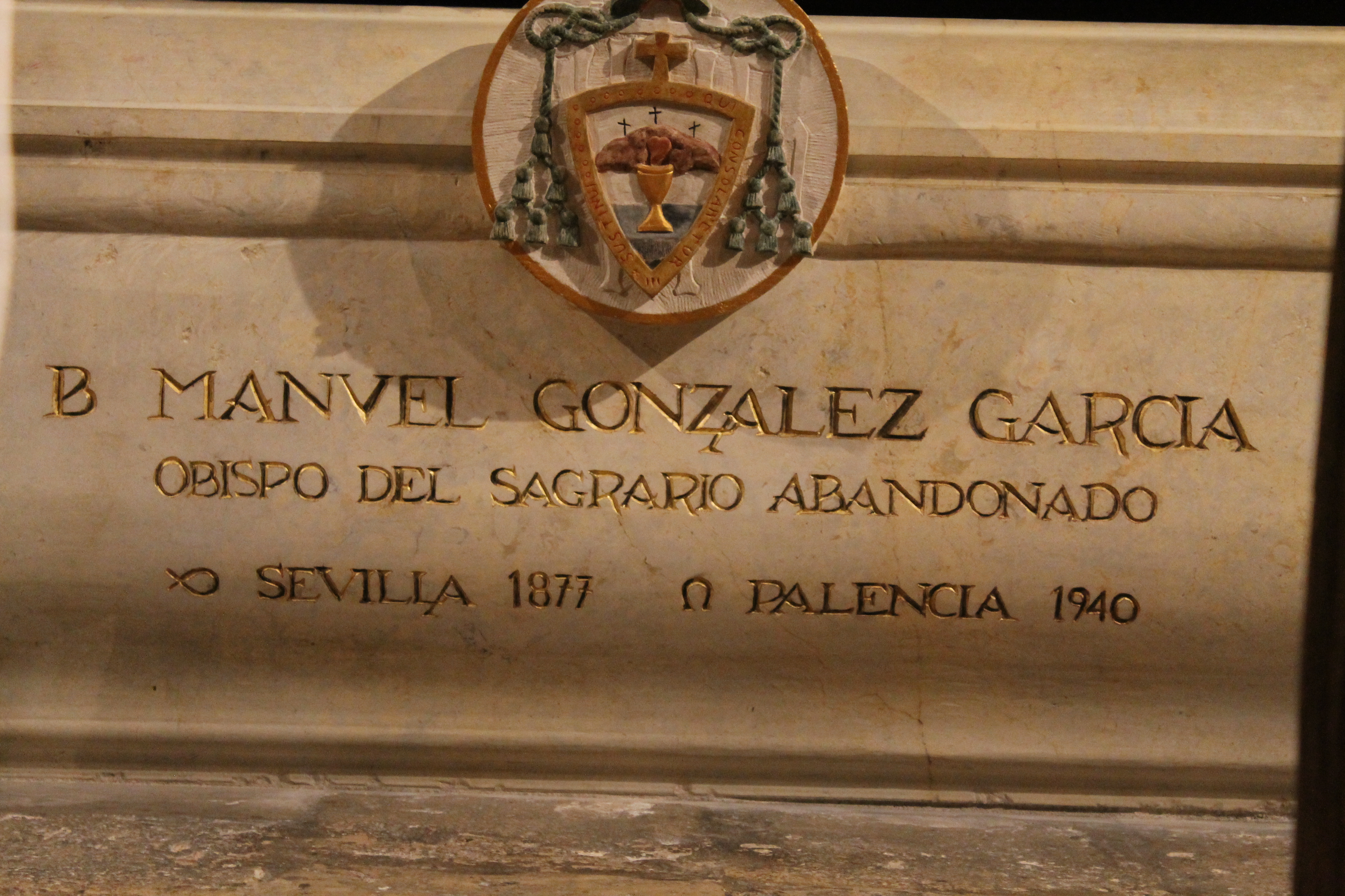 Tomb of the Spanish Blessed Manuel González García, in the Cathedral of Palencia.